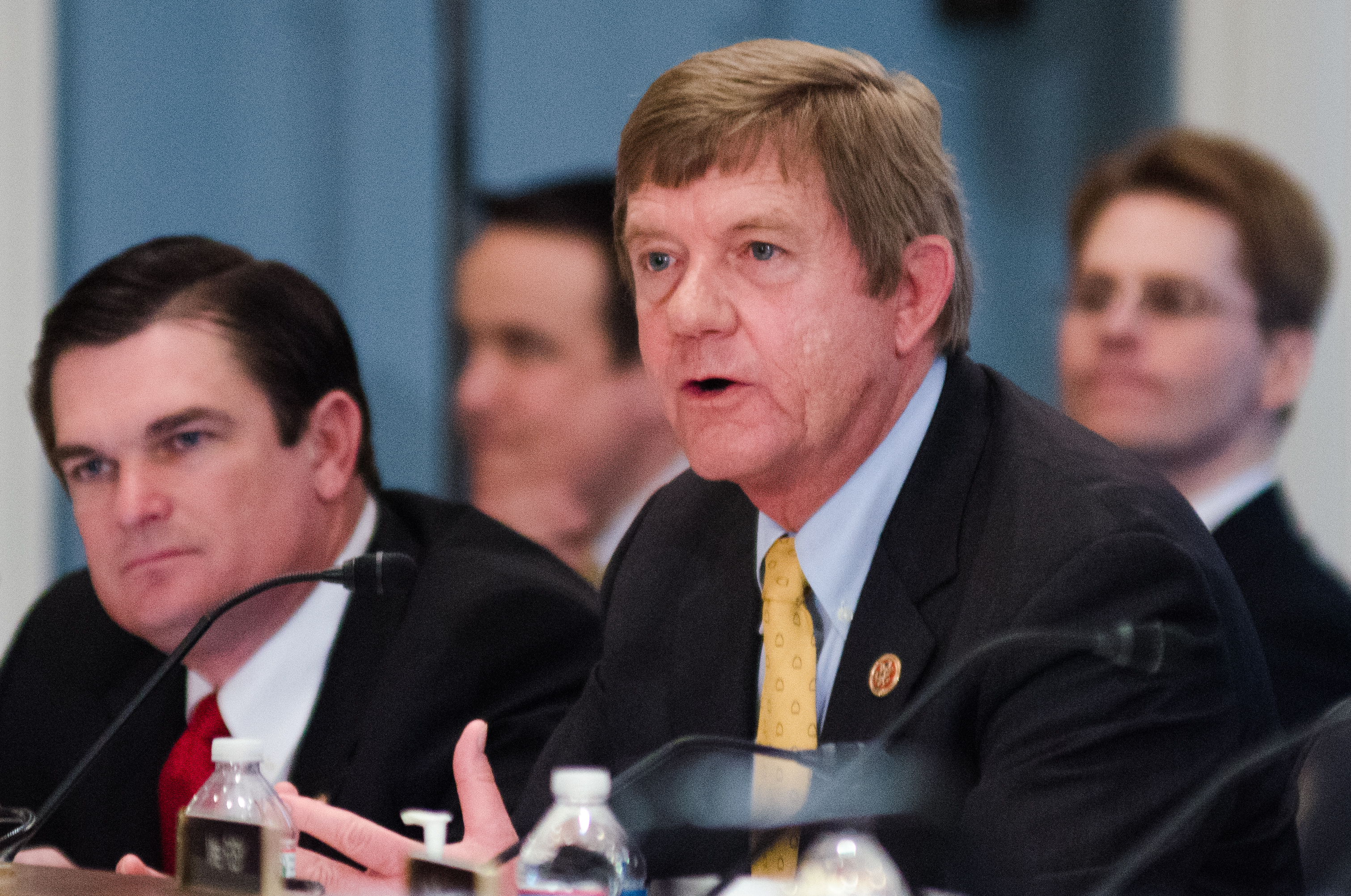 Representative Scott Tipton (CO) questions Agriculture Secretary Tom Vilsack, during his testimony before the House Agriculture Committee regarding the “State of the Rural Economy“ at the Longworth House Office Building in Washington, D.C. on Tuesday, Mar. 5, 2013. USDA Photo by Lance Cheung.